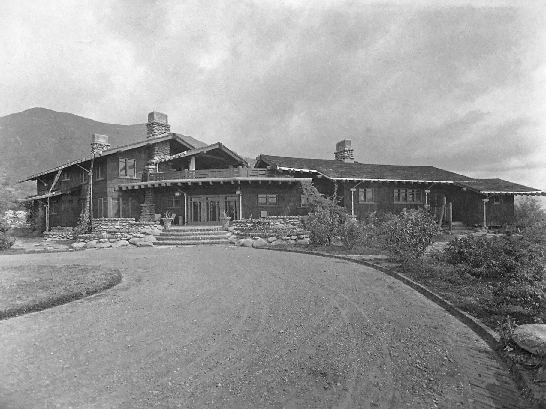 Front elevation, 1908-1911 Charles Millard Pratt House, Nordhoff (Ojai), California